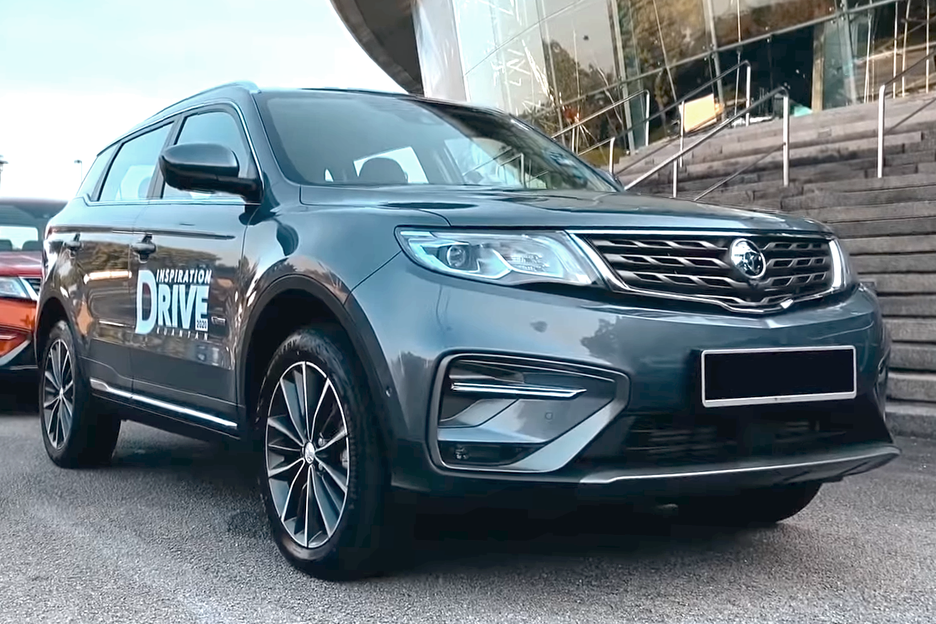 Proton X70 2020 CKD (front)